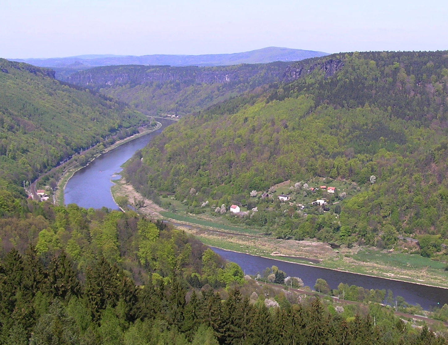 Labe (Elbe) river and Podskalí (Rasseln) village near Děčín (Czechia)